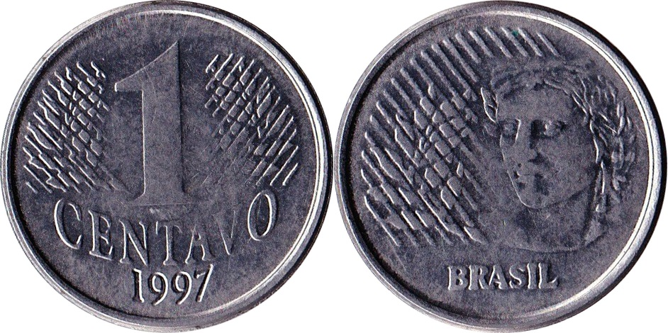 Coin from Brazil - 1 centavo, 1997